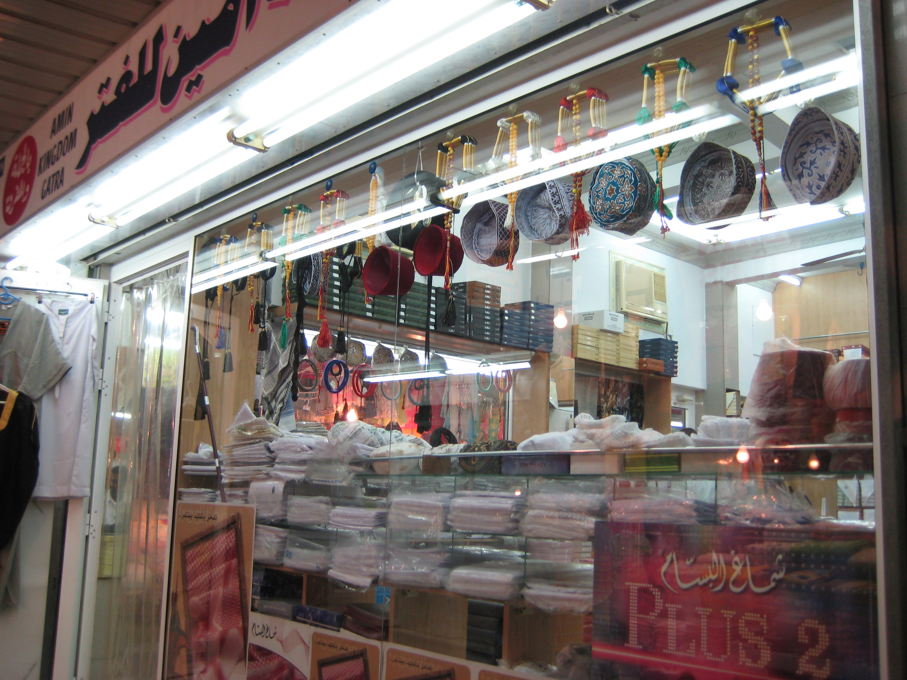 Bahrain Souk 2007 Shop selling Agal and Headgear Arab Headrope